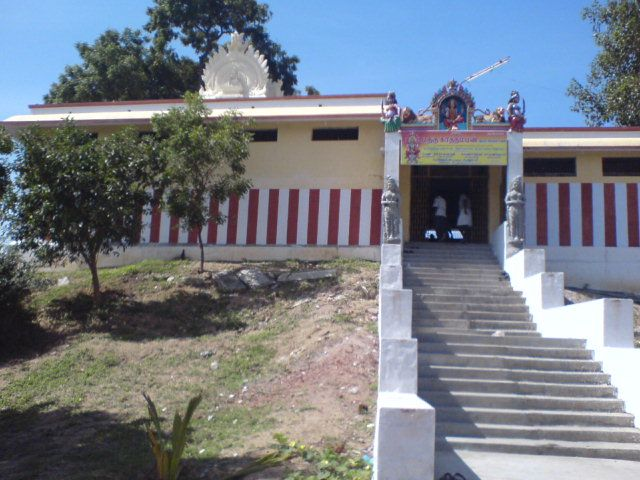 Madhagu Kattha Amman temple